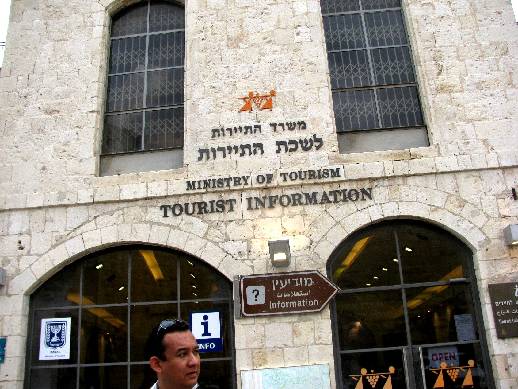 Jaffa Gate Tourist Information